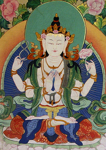 Photo of one of my thangkas